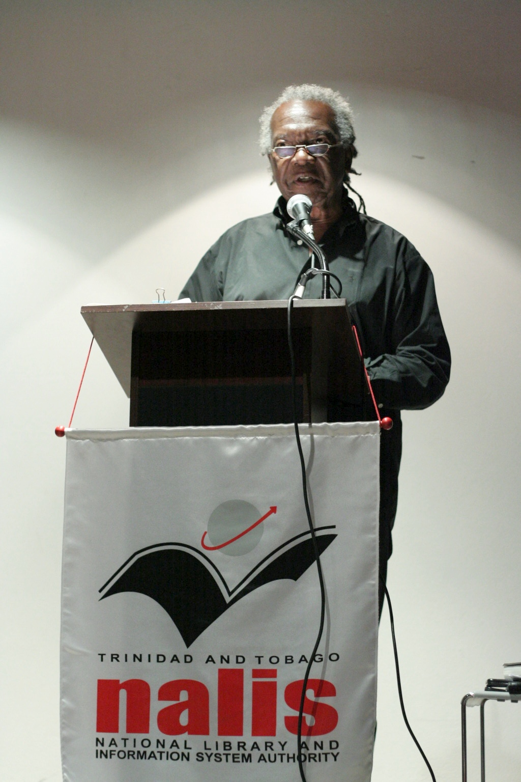 Reading at the NALIS event.Austin Clarke